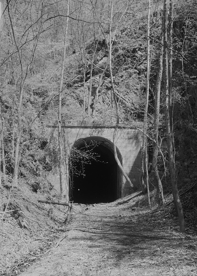 West portal of Tunnel No. 1292, Indigo Tunnel, milepost 129.95, looking northeast. - Western Maryland Railway, Cumberland Extension, Pearre to North Branch, from WM milepost 125 to 160, Pearre, Washington County, MD.